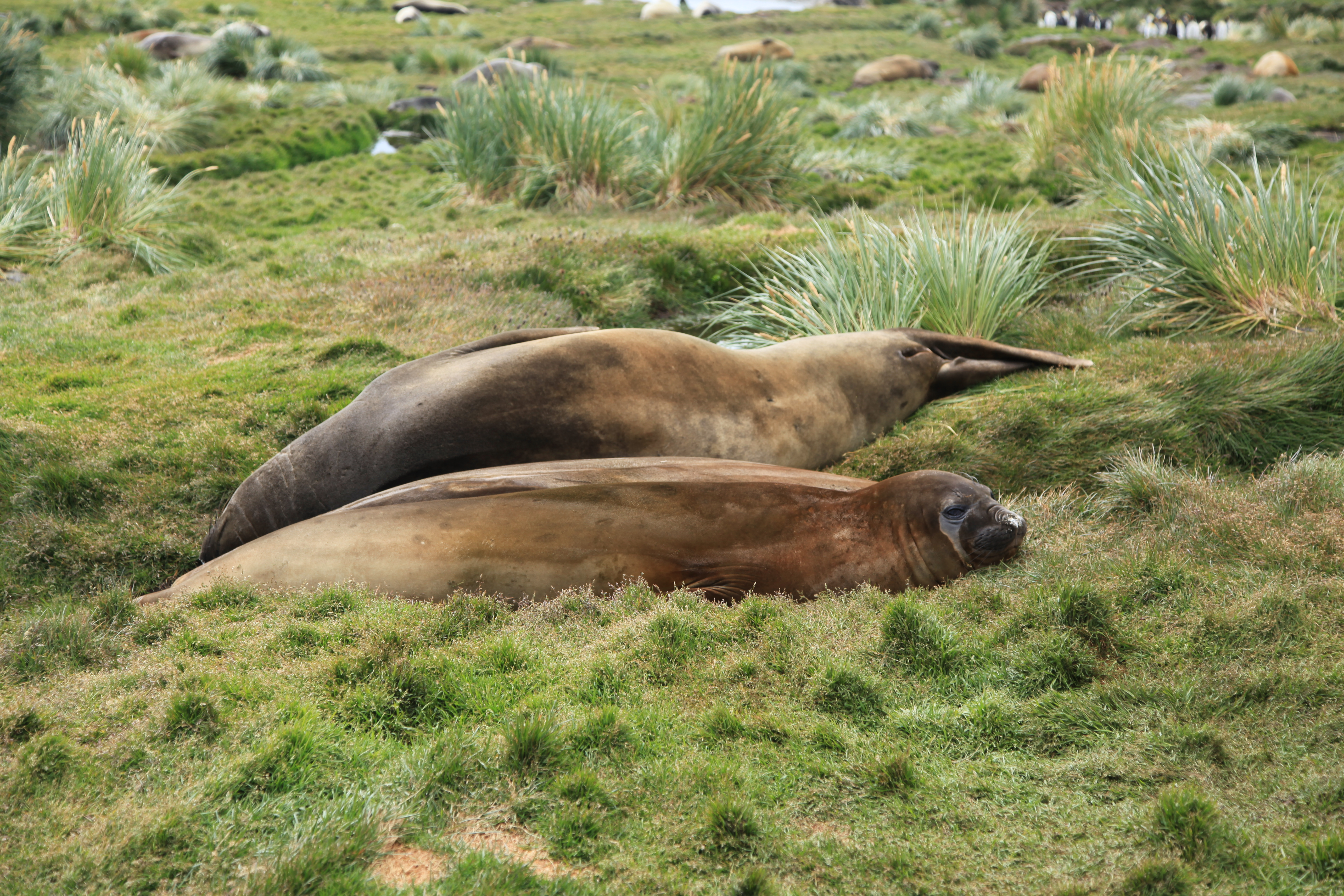 Southern Elephant Seals at Grytviken, South Georgia